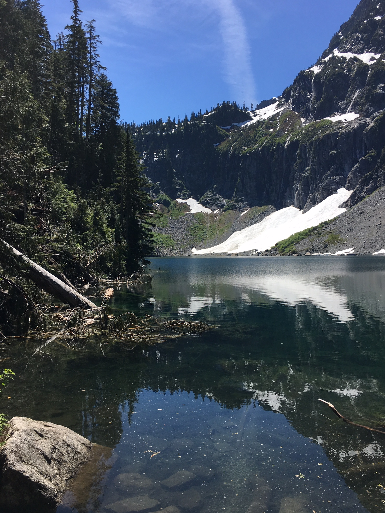 Photo of Lake Serene taken from trail on 2016-06-04